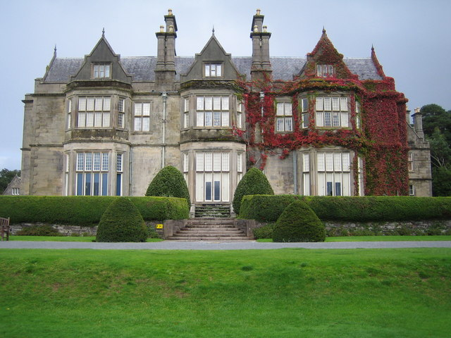 Theach Mhucrois (Muckross House) Muckross House is a mansion designed by the Scottish architect, William Burn, and was built between 1839 and 1843 for Henry Arthur Herbert and his wife, the watercolourist, Mary Balfour Herbert. Queen Victoria made a visit to the house in 1861. The official website for the house is here This is the west facade.